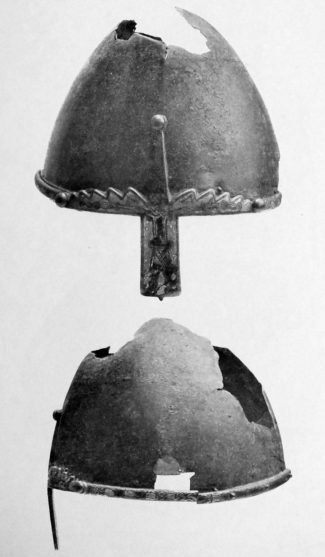 Helmet of St. Wenceslas.